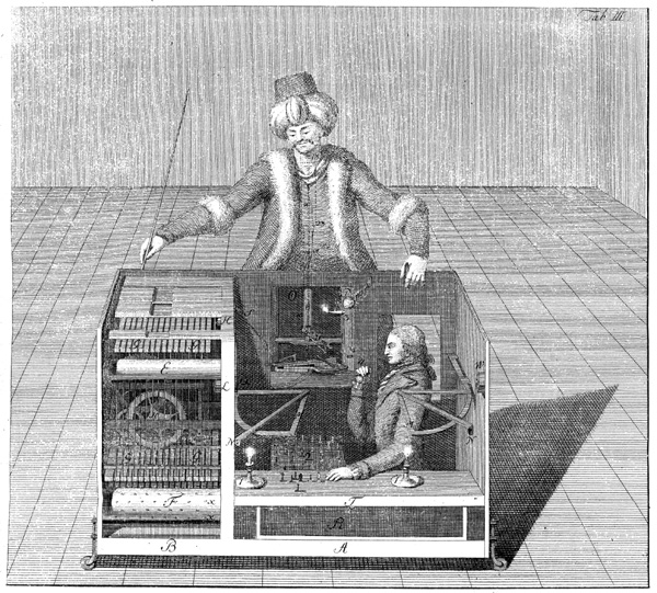 The Turkish Chess Player.